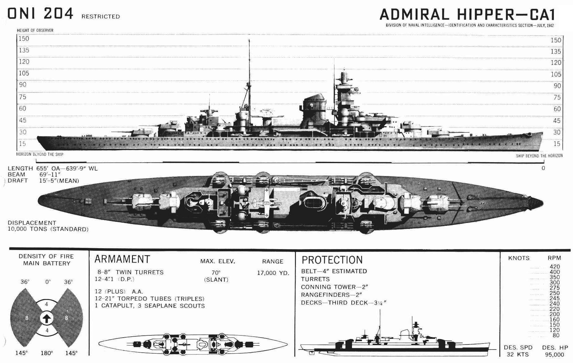 Wartime recognition drawing of an Admiral Hipper class cruiser, produced by the Office of Naval Intelligence in 1942.